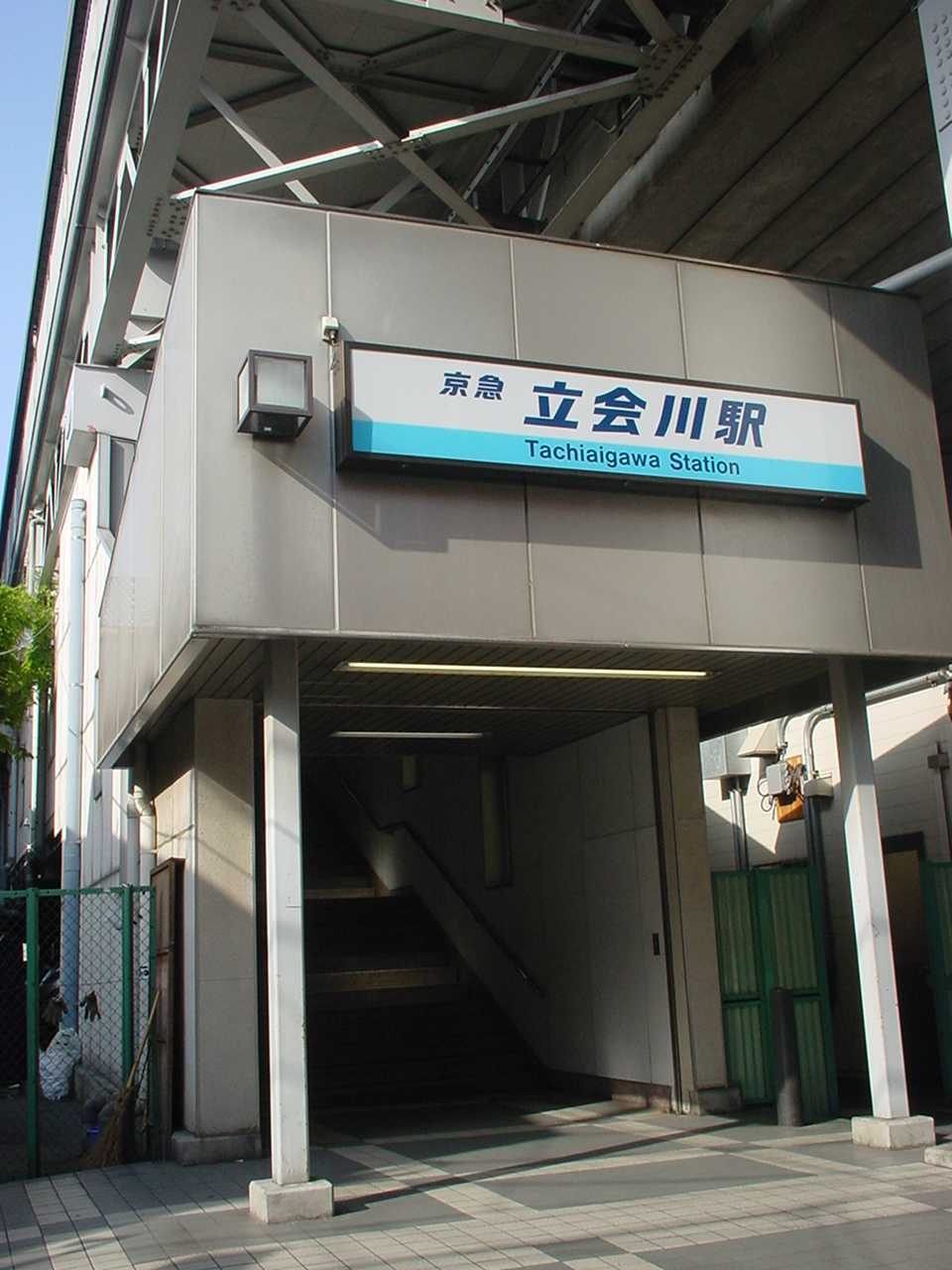 Tachiaigawa station